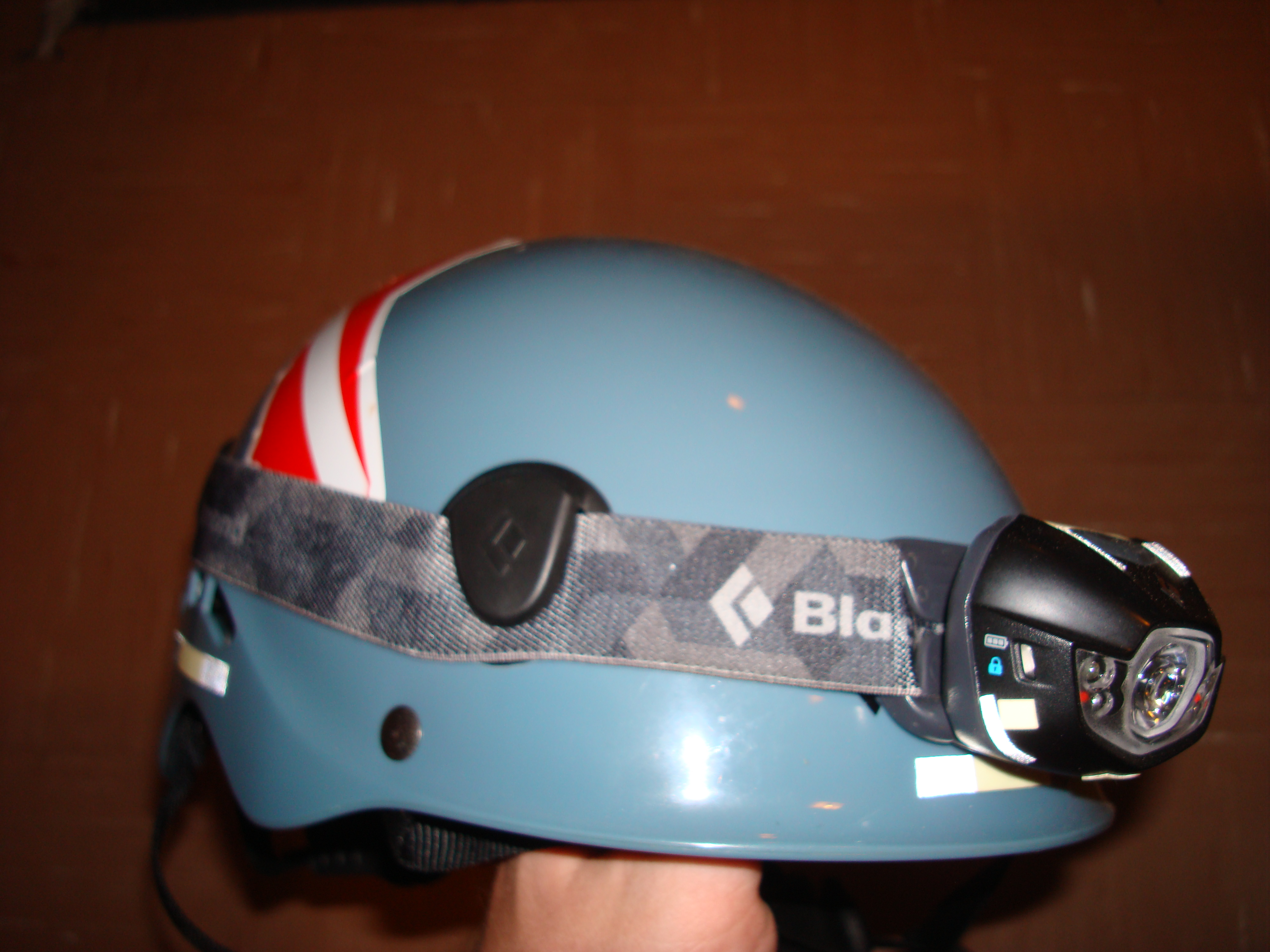 Black Diamond Spot attached to the Half Dome helmet